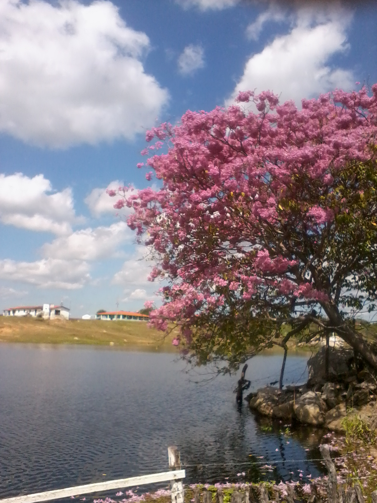 Solonópole - State of Ceará, Brazil